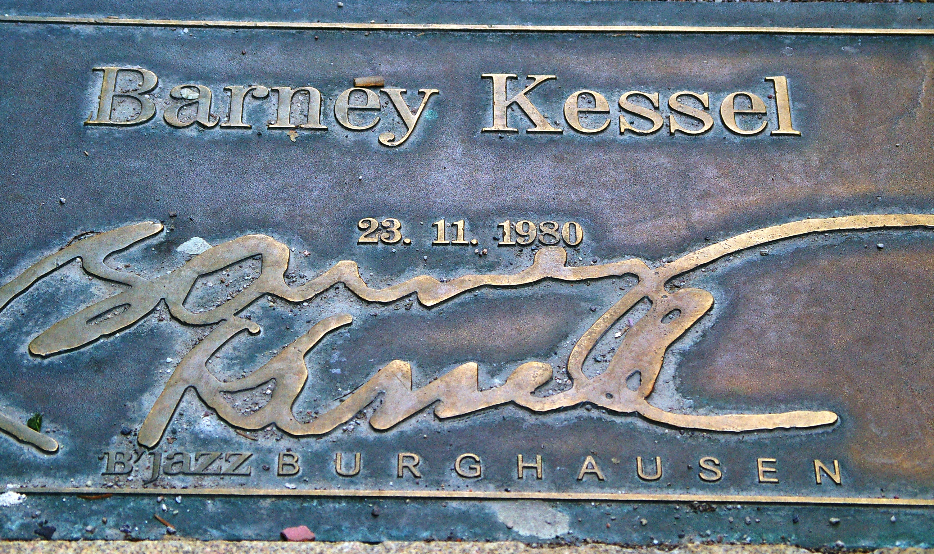 Street of Fame Burghausen